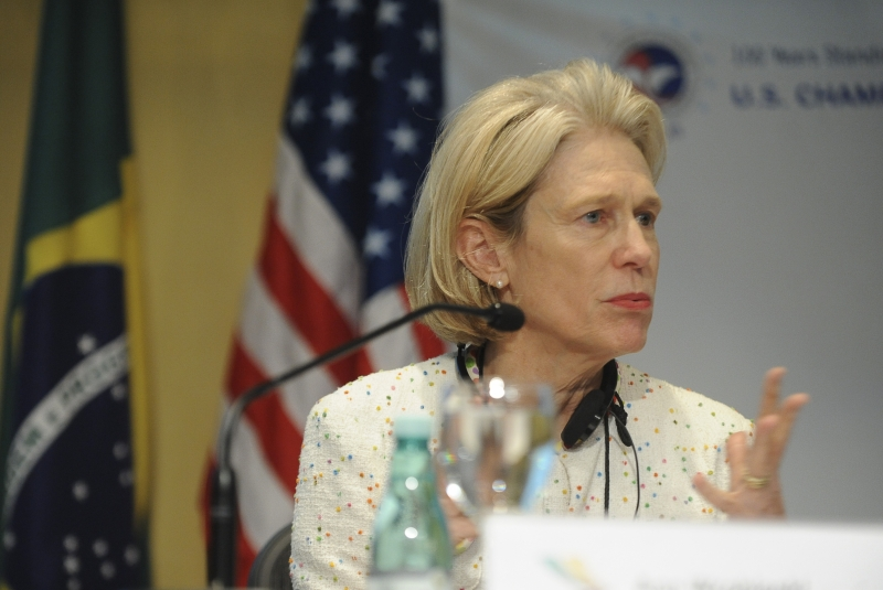 Ann Wrobleski, of International Paper, talks about the outlook for investments, as part of the 2012 U.S./Brazil National Industry Confederation.